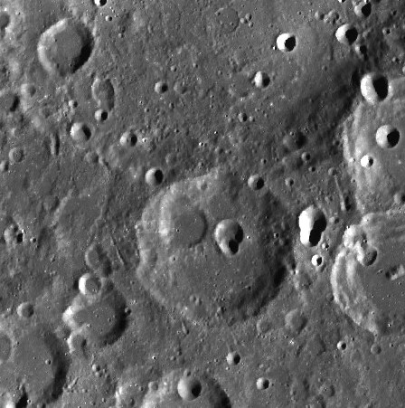 LROC . Frost at center, upper half of image occupied by ancient crater Landau